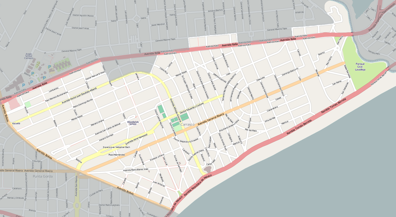 Street map of Carrasco, Montevideo, exported from OpenStreetMap. I added shading to delimit the barrio. This map may be incomplete, and may contain errors. Don't rely solely on it for navigation.